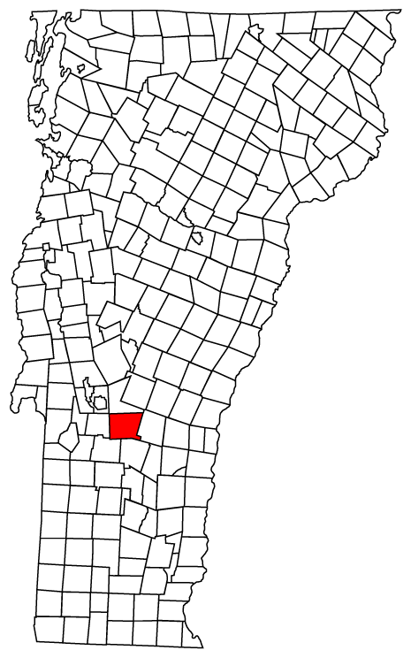 Description: Map of Vermont towns with Shrewsbury highlighted Source: Map created by Jared C. Benedict on 26 March 2004. Copyright: © Jared C. Benedict.